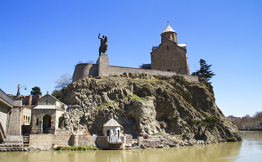 Tbilisi, Georgia — Metekhi Church, King Gorgasali Monument, Abo Tbileli Church